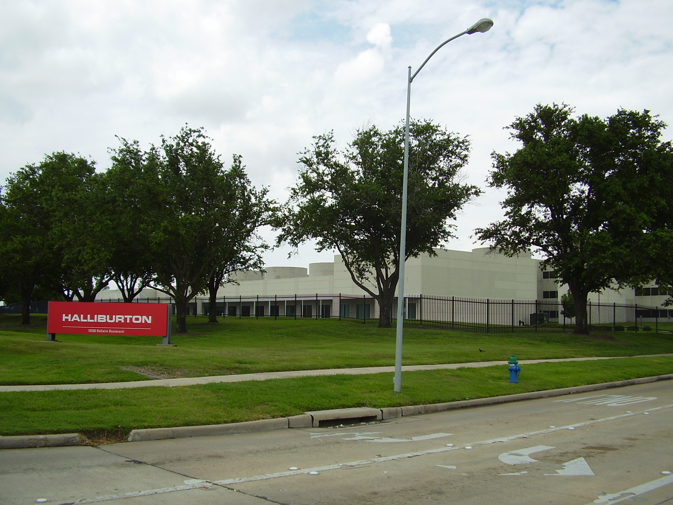 Halliburton offices on Bellaire Boulevard in Westchase, Houston